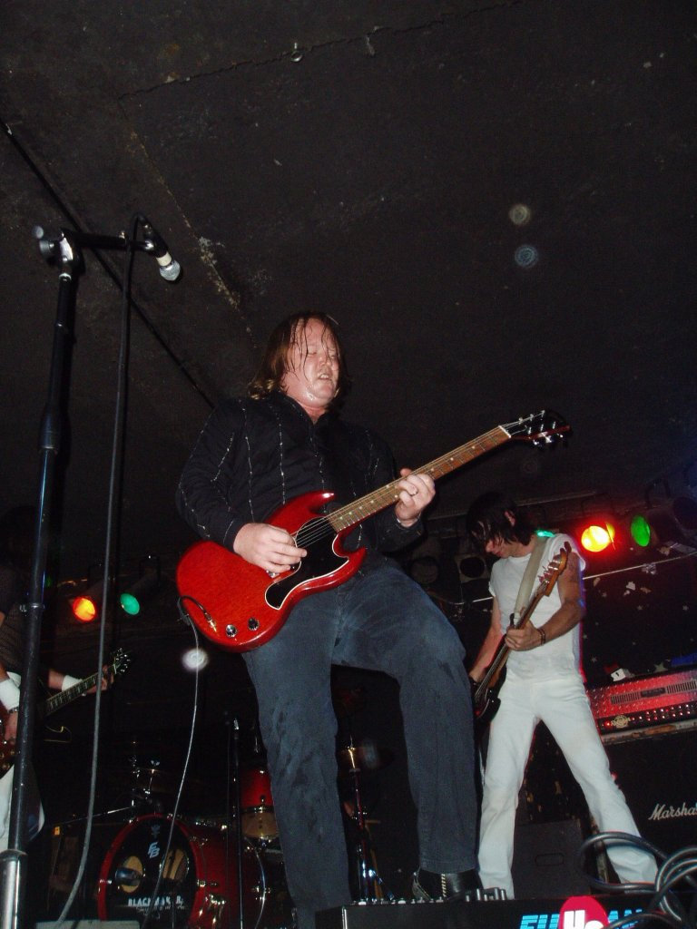 The Urge Overkill singing at the Starlight